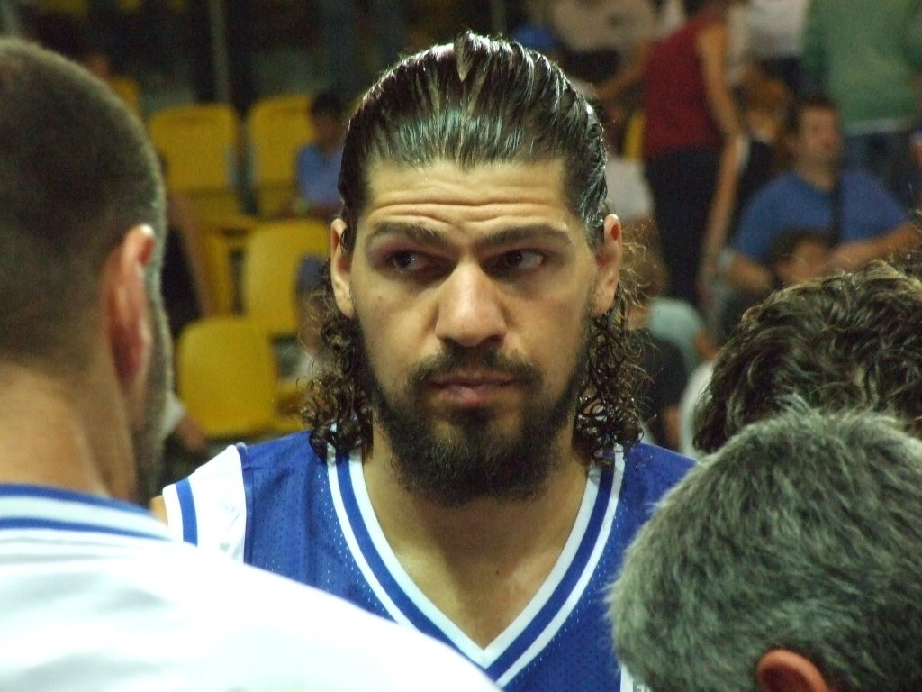 Emmanuel Mulo, Taken by Emmanuel Mulo at International Basketball Tournament, Strasbourg August 2007